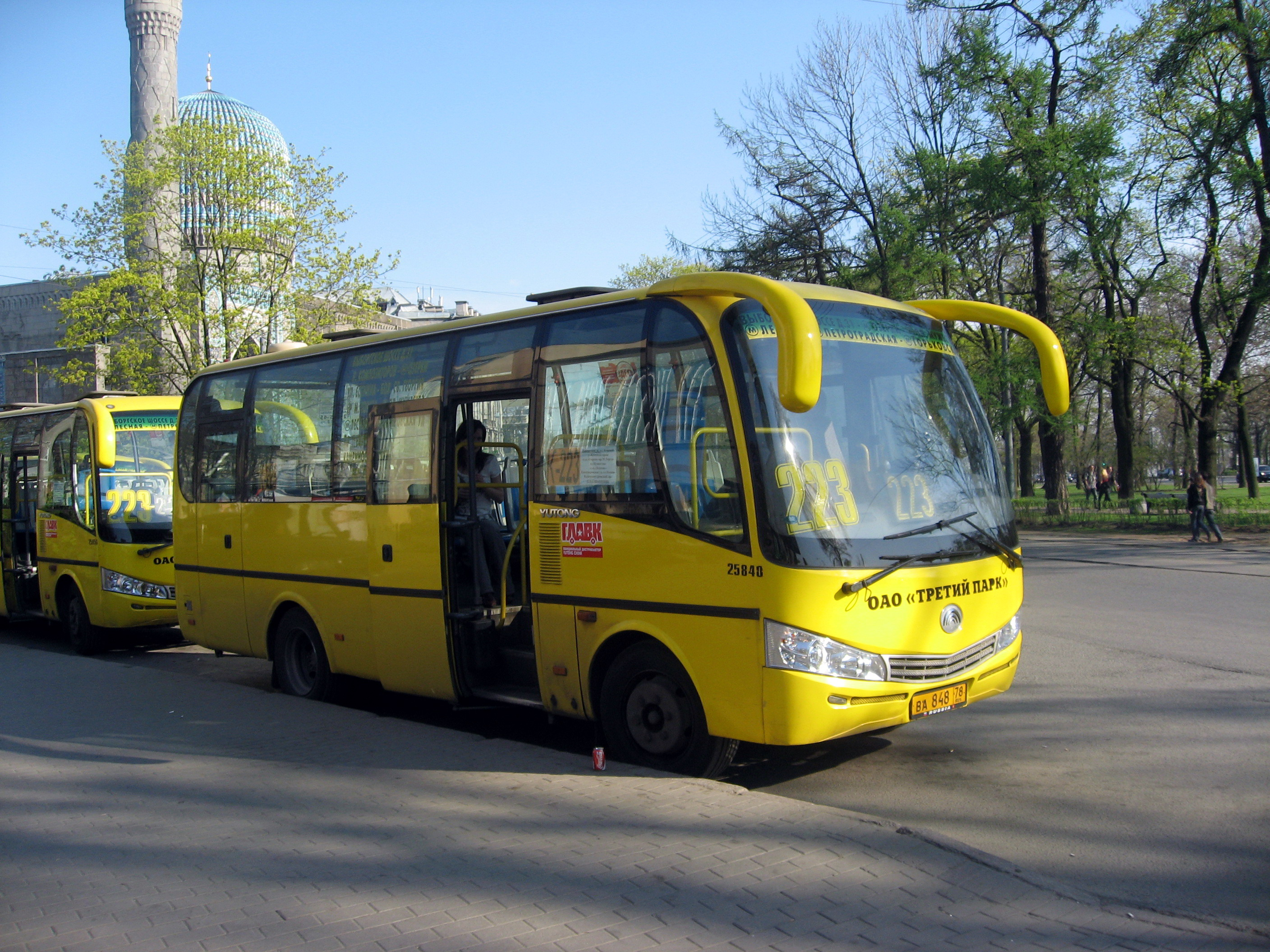 Yutong ZK6737D bus (BA 848 78; #25848) in Saint Petersburg, Russia.